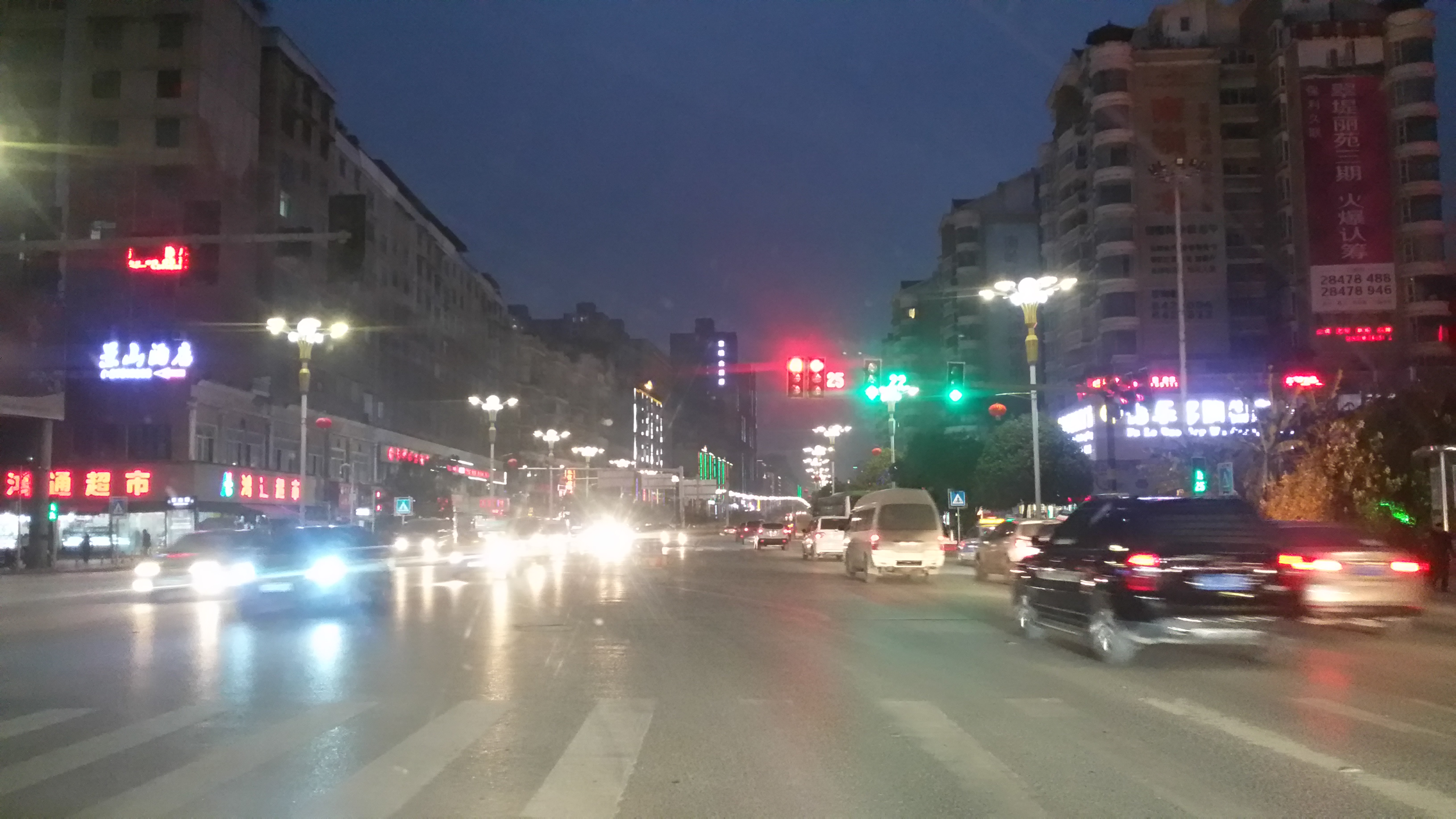 Zhongzhuang Town, Zunyi, Guizhou, China